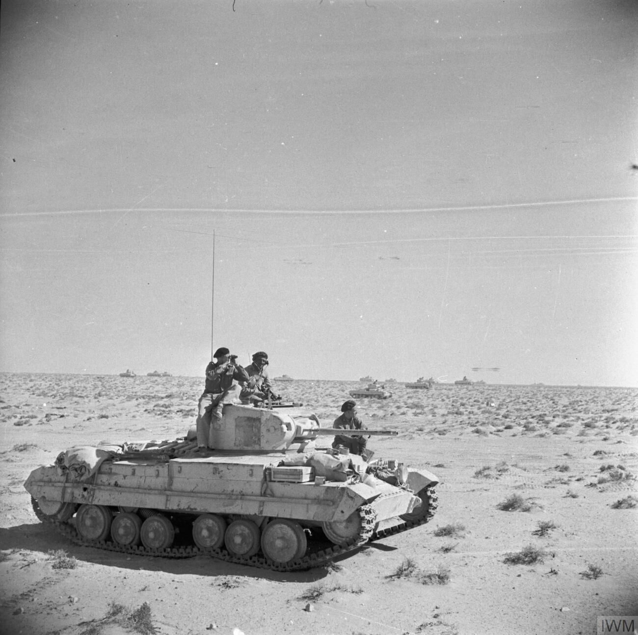 The British Army in North Africa 1942 Valentine tanks advancing in the Western Desert, 18 June 1942.